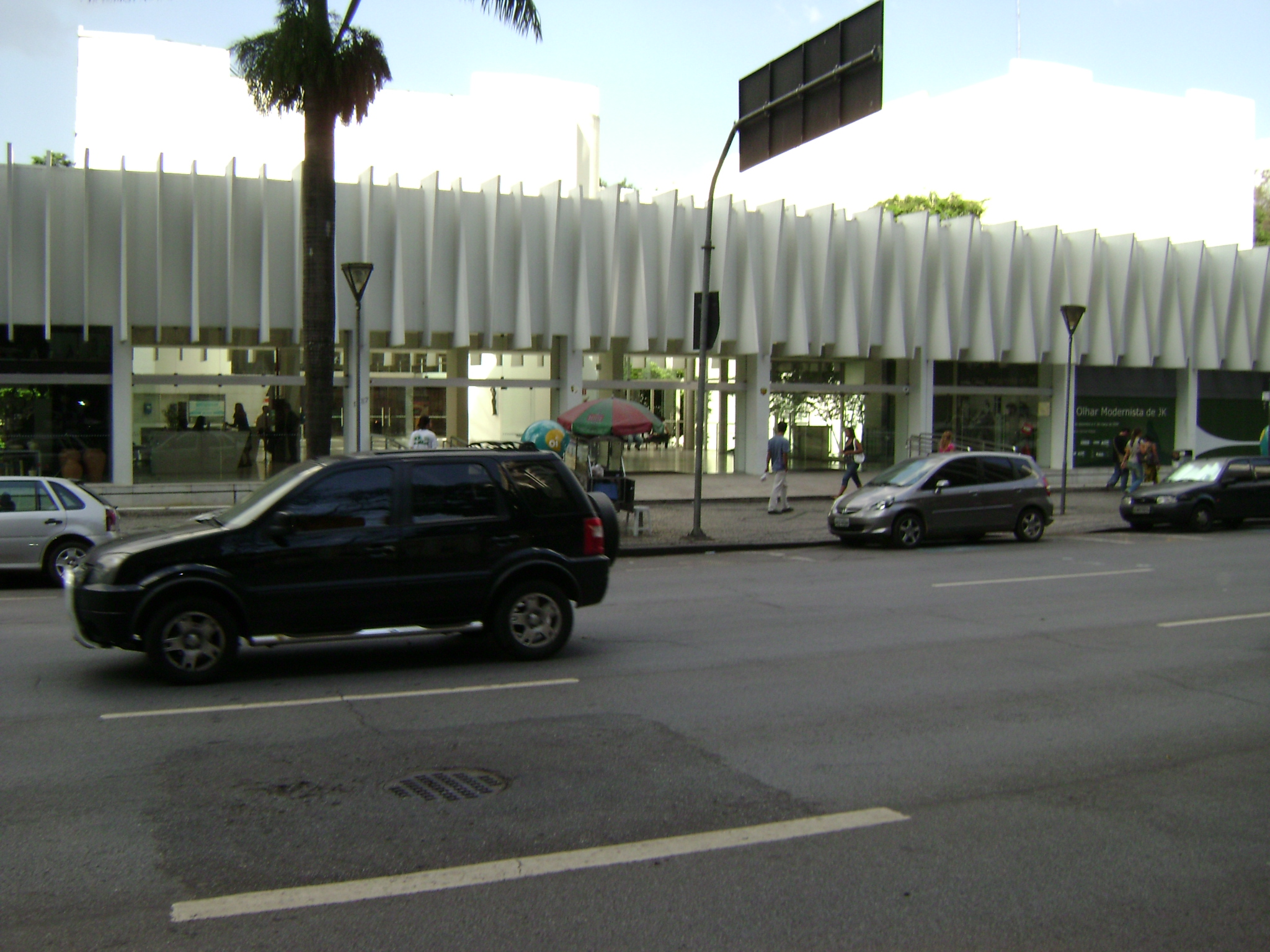 Palácio das Artes in Belo Horizonte.